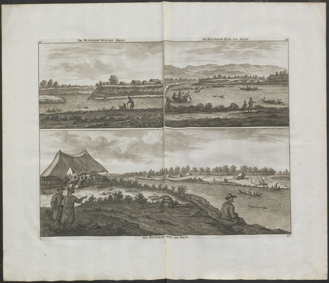 Trade crossing near the borders of Shirvan. The confluence of the Kura and Araks rivers.Javate and Qalaqayın.